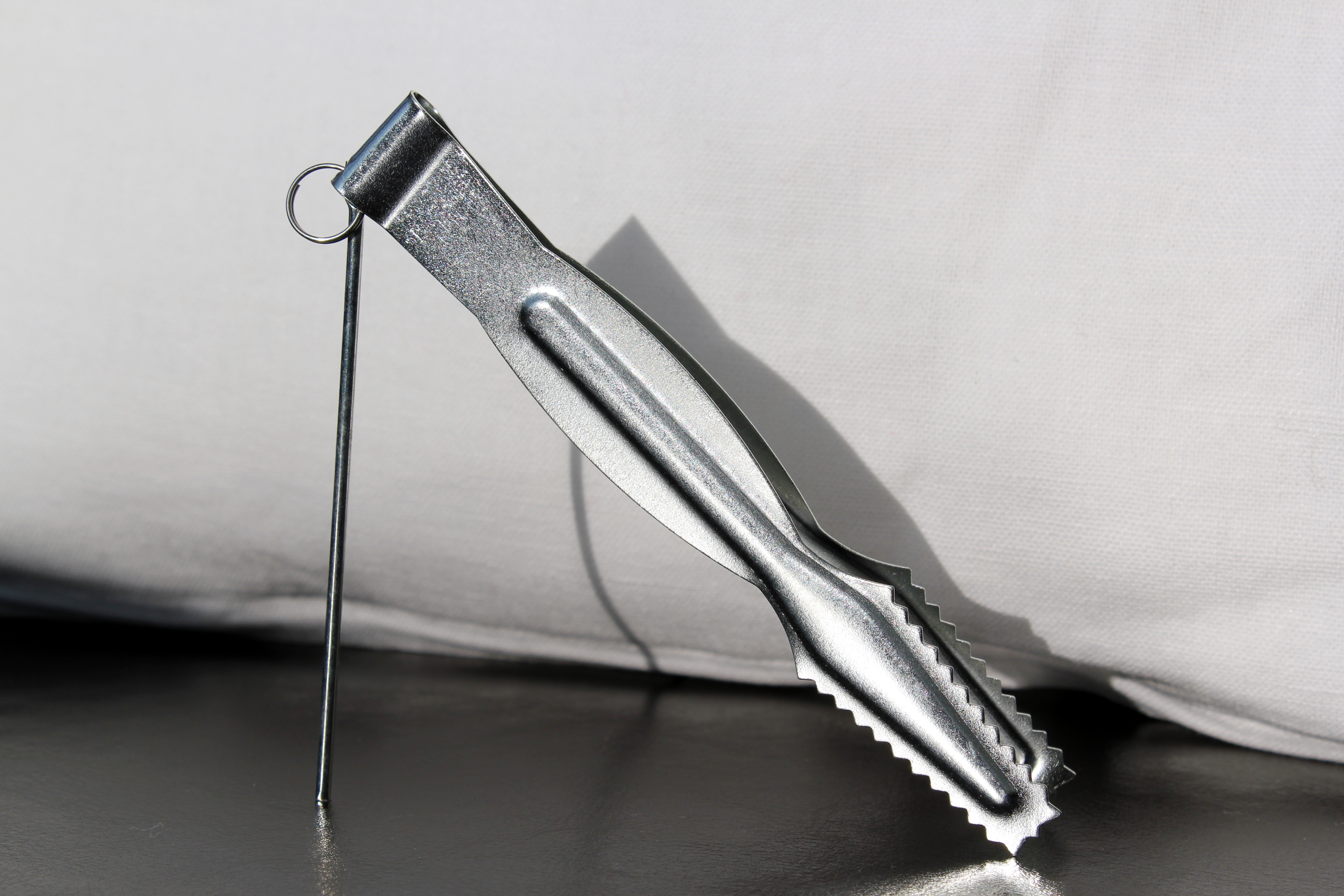 A Shisha plier